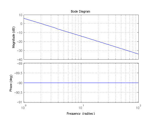 Bode plot of a I controller (K = 2)